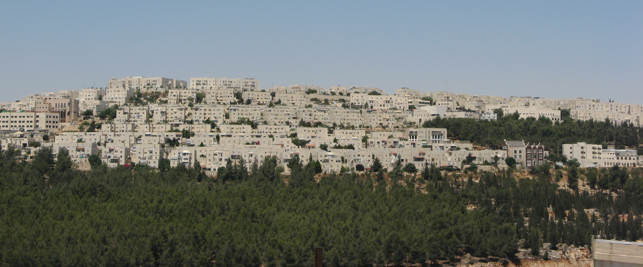 Ramat Shlomo with the Chabad 770 imitation